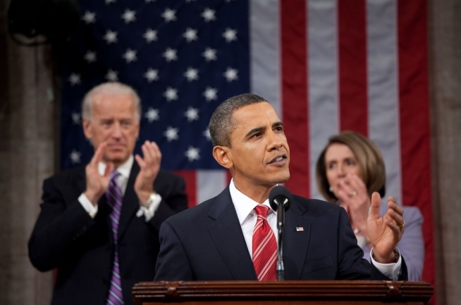 President Barack Obama gives his State of the Union address to a joint session of Congress in the House Chamber of the U.S. Capitol, Jan. 27, 2010. (Official White House Photo by Pete Souza)